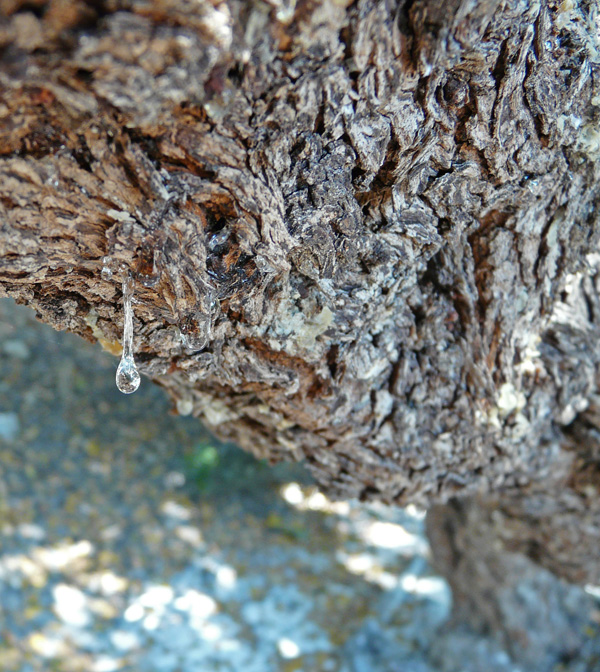 mastiha drop